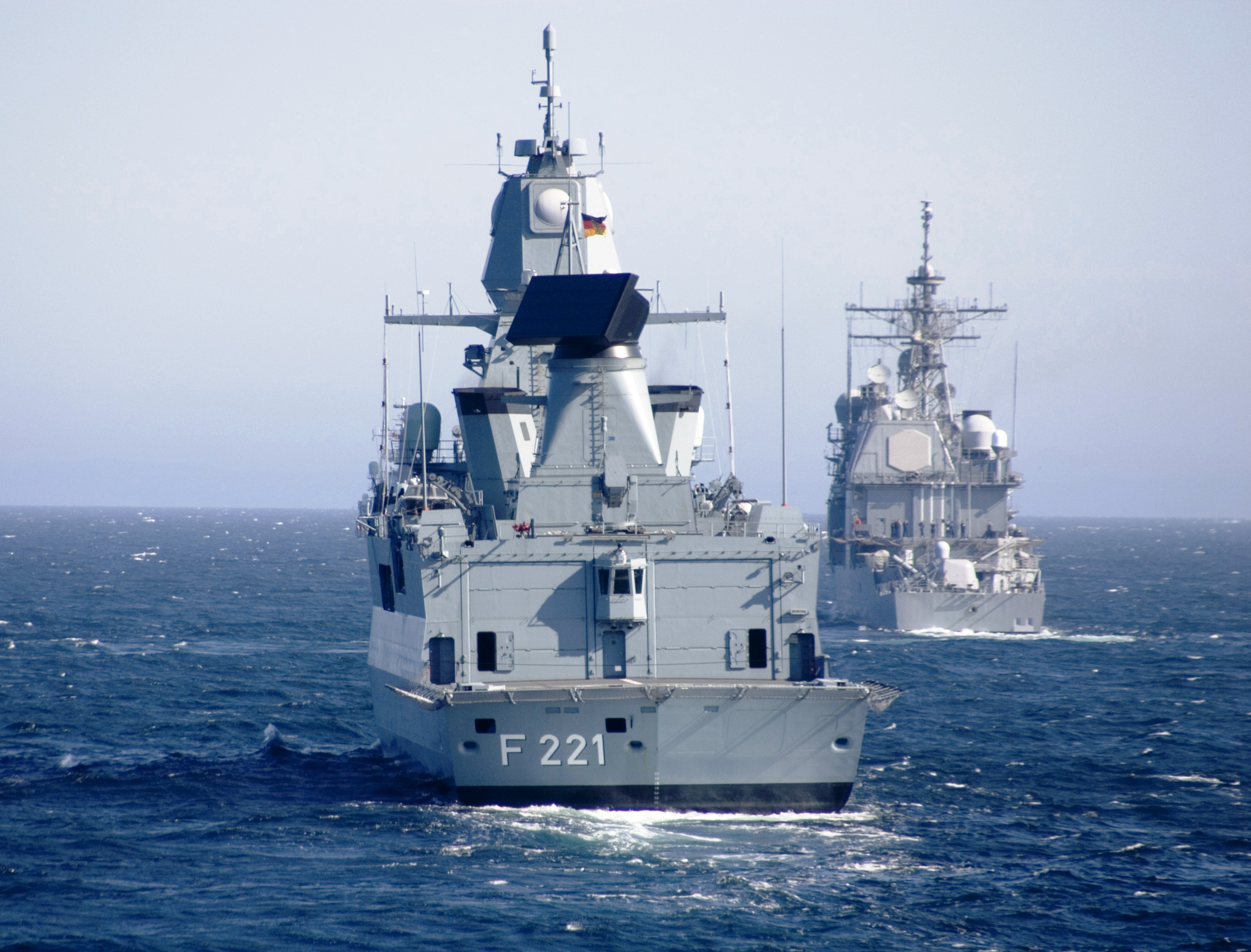 German Frigate FFG Hessen (F 221) and USS Normandy (CG 60) participate in Neptune Warrior off the coast of Scotland on May 1, 2007. Neptune Warrior is a course which certifies ships for NATO deployments.